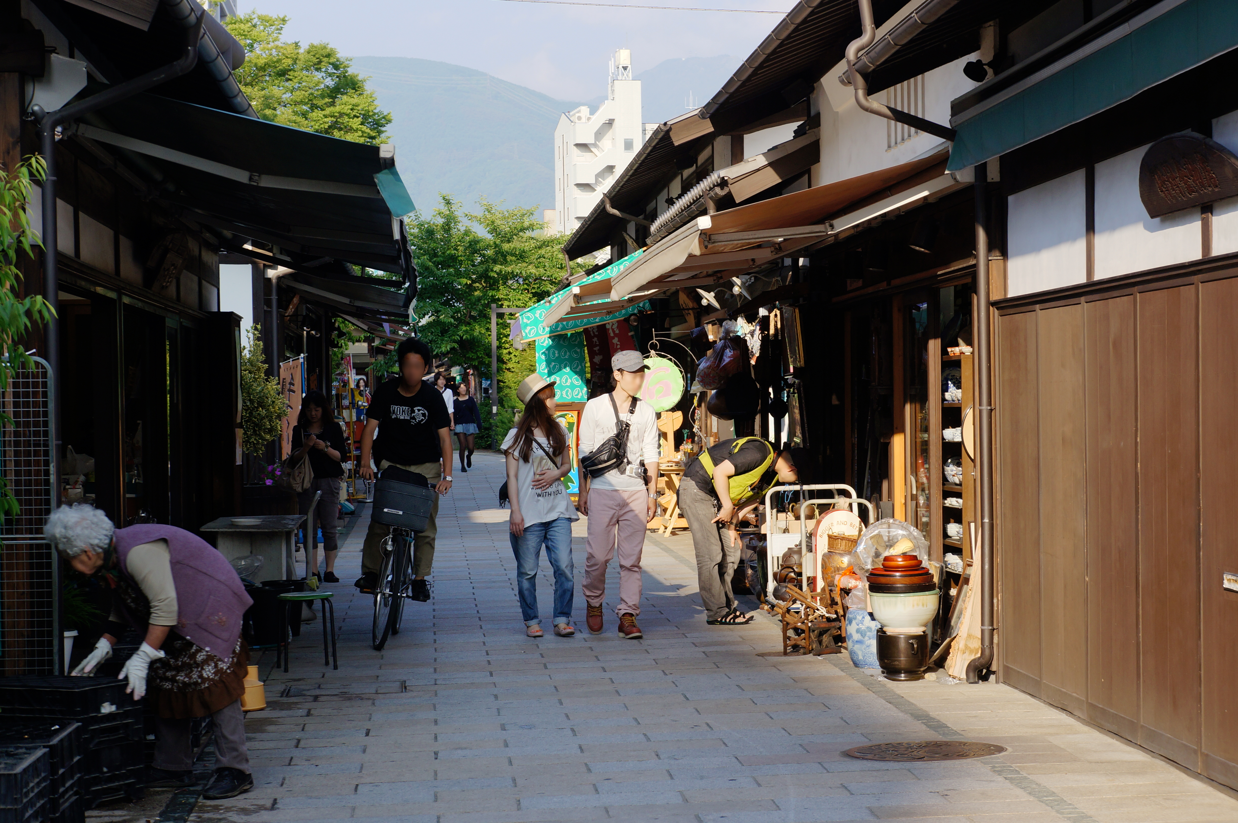 At Nawate shop street in Matsumoto, Nagano prefecture, Japan.